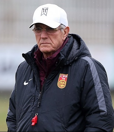 China national football team in Tehran before 2018 WCQ game with Iran